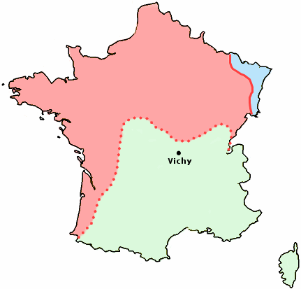 Map showing German occupied France (red), Vichy France (green), area annexed by Germany (blue), during the Second World War (1940-44)